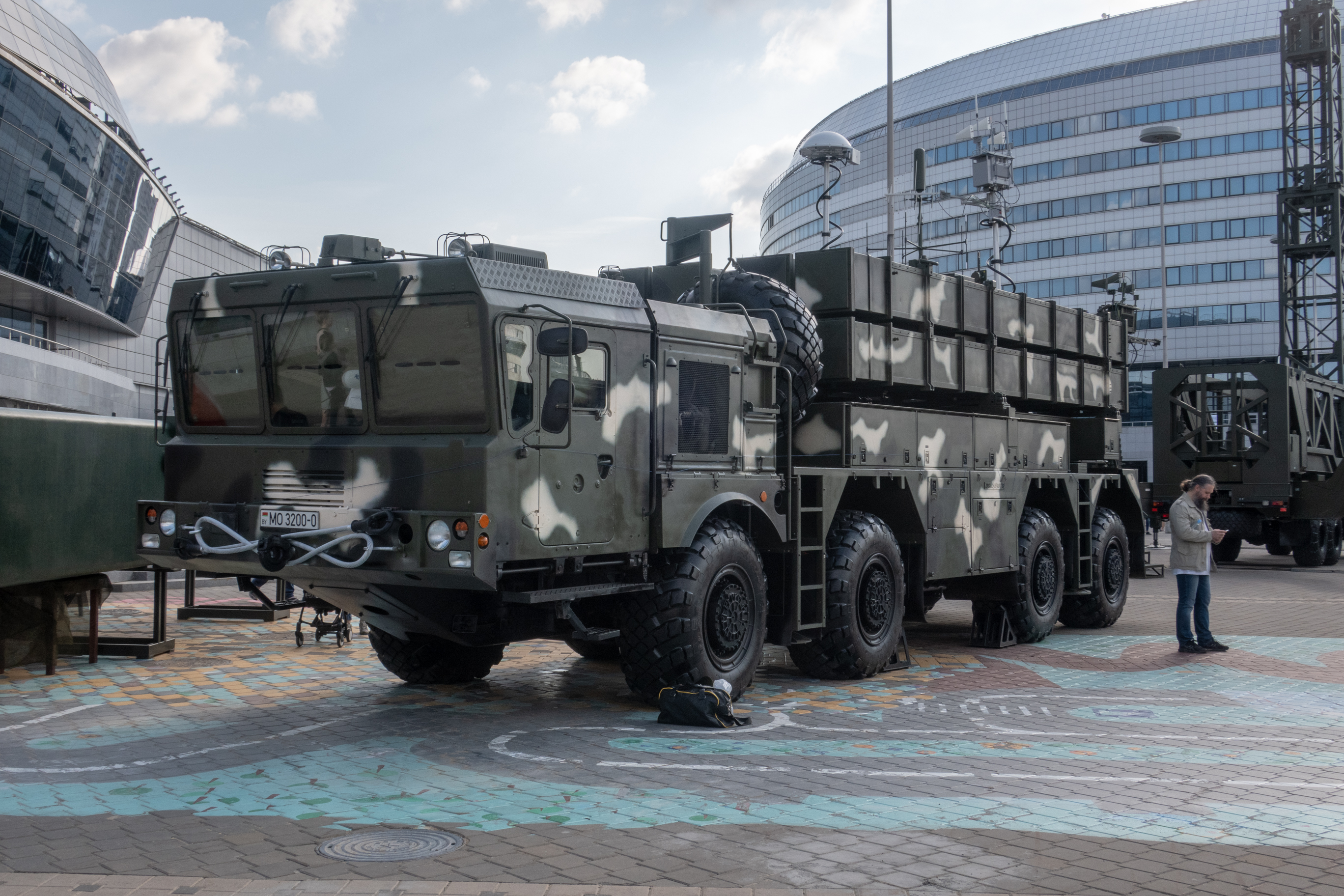 Belarusian-made Polonez MLRS. Photo taken at Milex-2019 arms and military machinery exhibition (Minsk, Belarus)